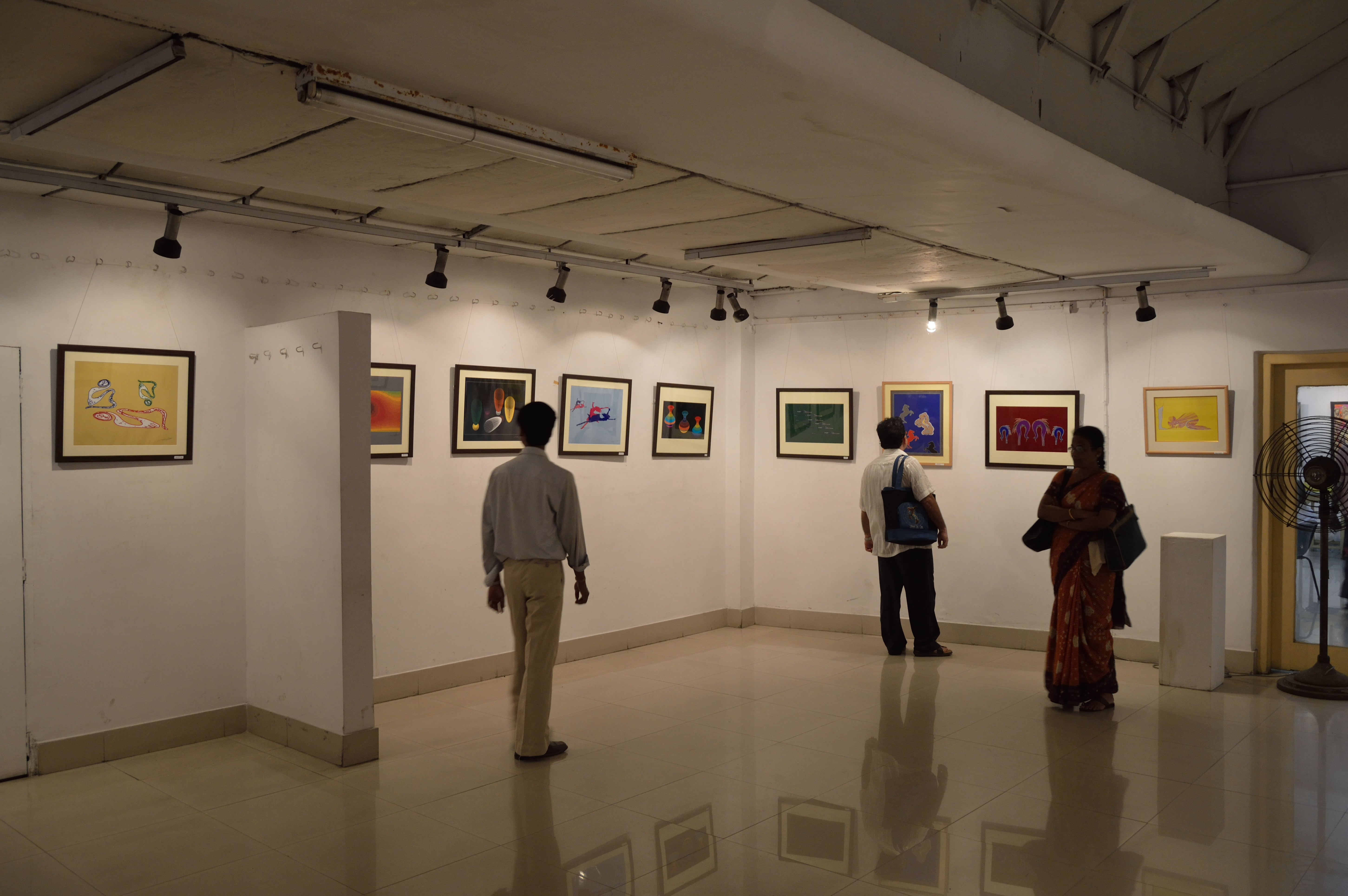 The third solo exhibition of Professor Biswatosh Sengupta on Graphic Art using c, c++ and MATLAB is going at the Academy of Fine Arts, Kolkata from 3rd to 9th October, 2012.